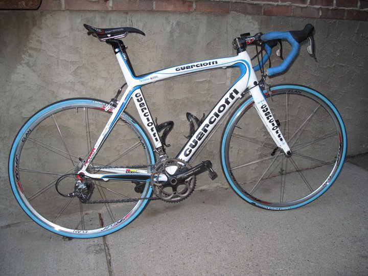 Guerciotti with Rolf Elan wheelset